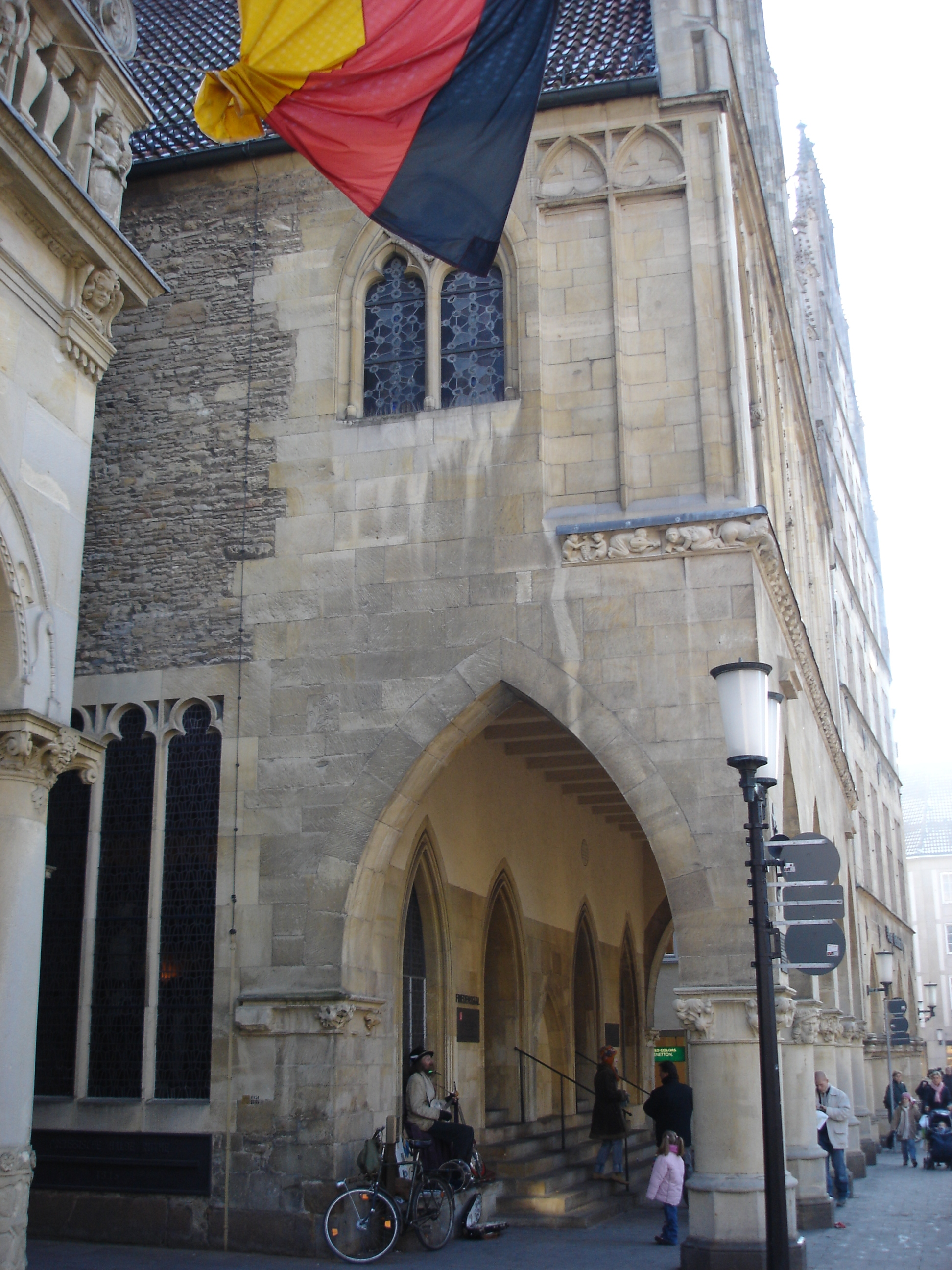 Extension of the historical city hall by the so called "Bogenhalle" in Münster, Westphalia, Germany